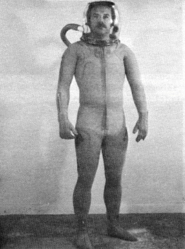 Space Activity Suit (model number unknown)